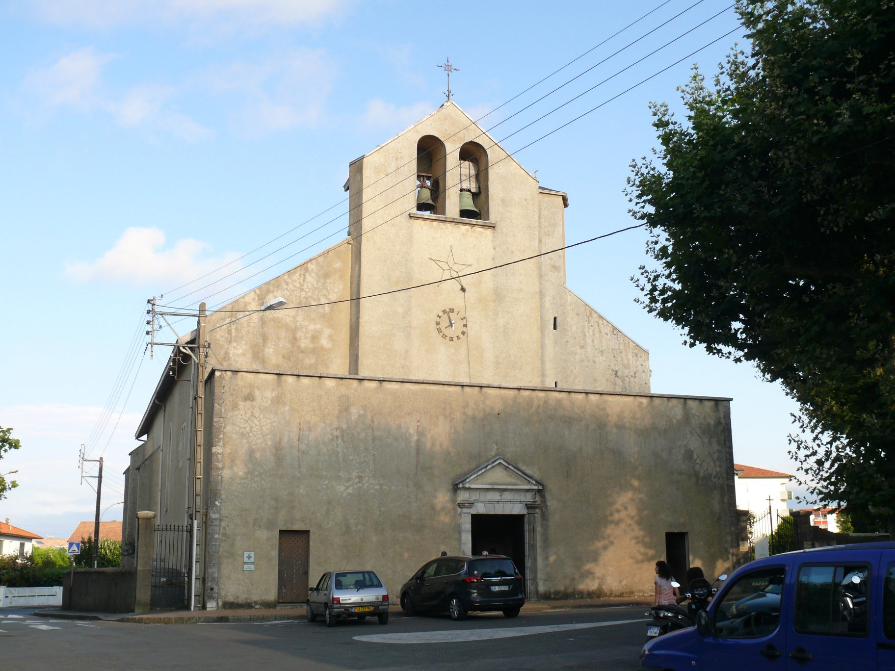 Saint-Martin's church of Biarritz (Pyrénées-Atlantiques, Aquitaine, France).